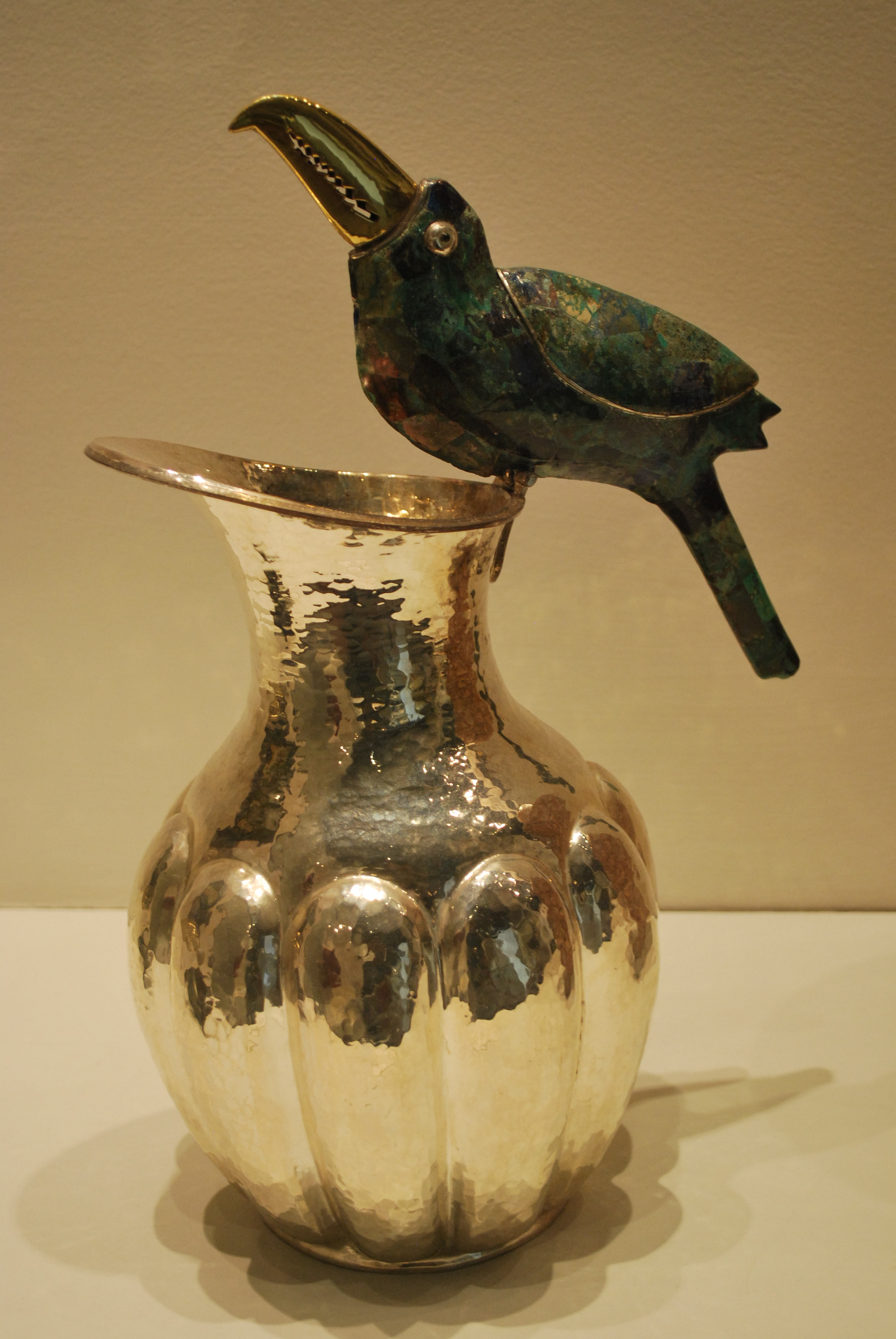 Hammered silver jar with bird from Taxco, Guerrero, Mexico on display at the Museum of Artes Populares in Mexico City